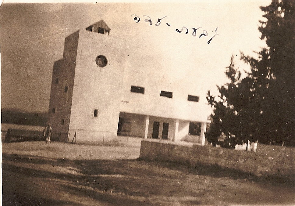 Architecture of Israel